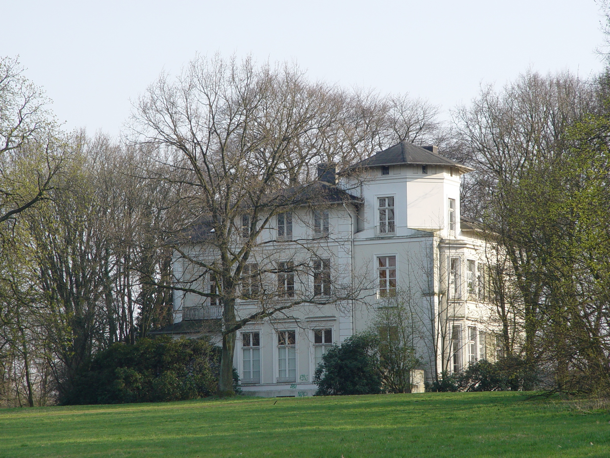 Hamburg in Germany. Amsinck-Villa.